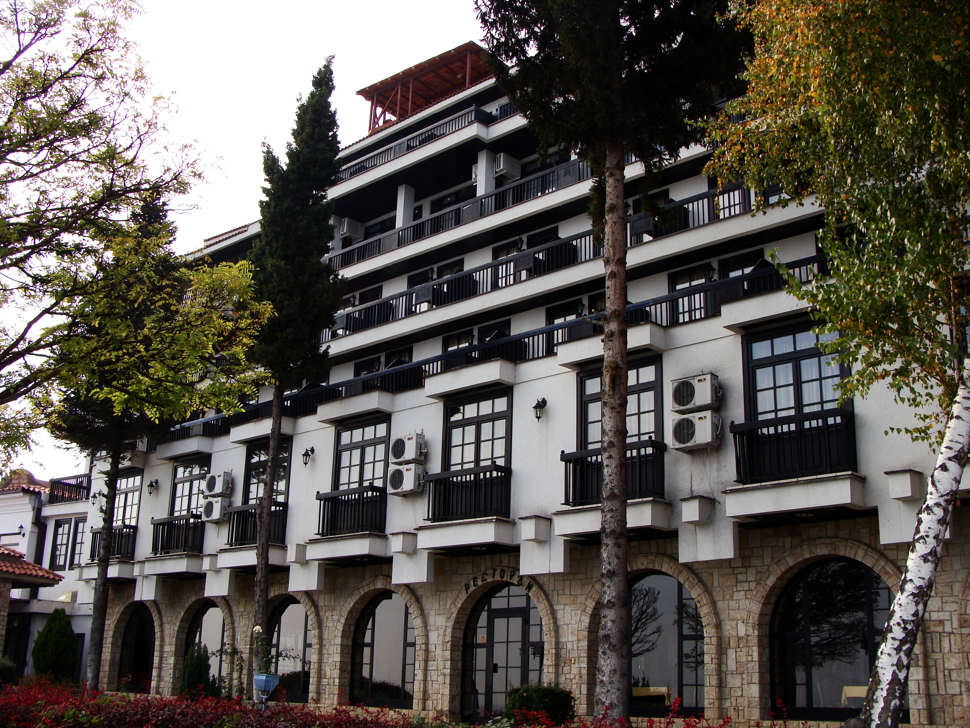 Struga, a town by the Ohrid lake. Kalishta